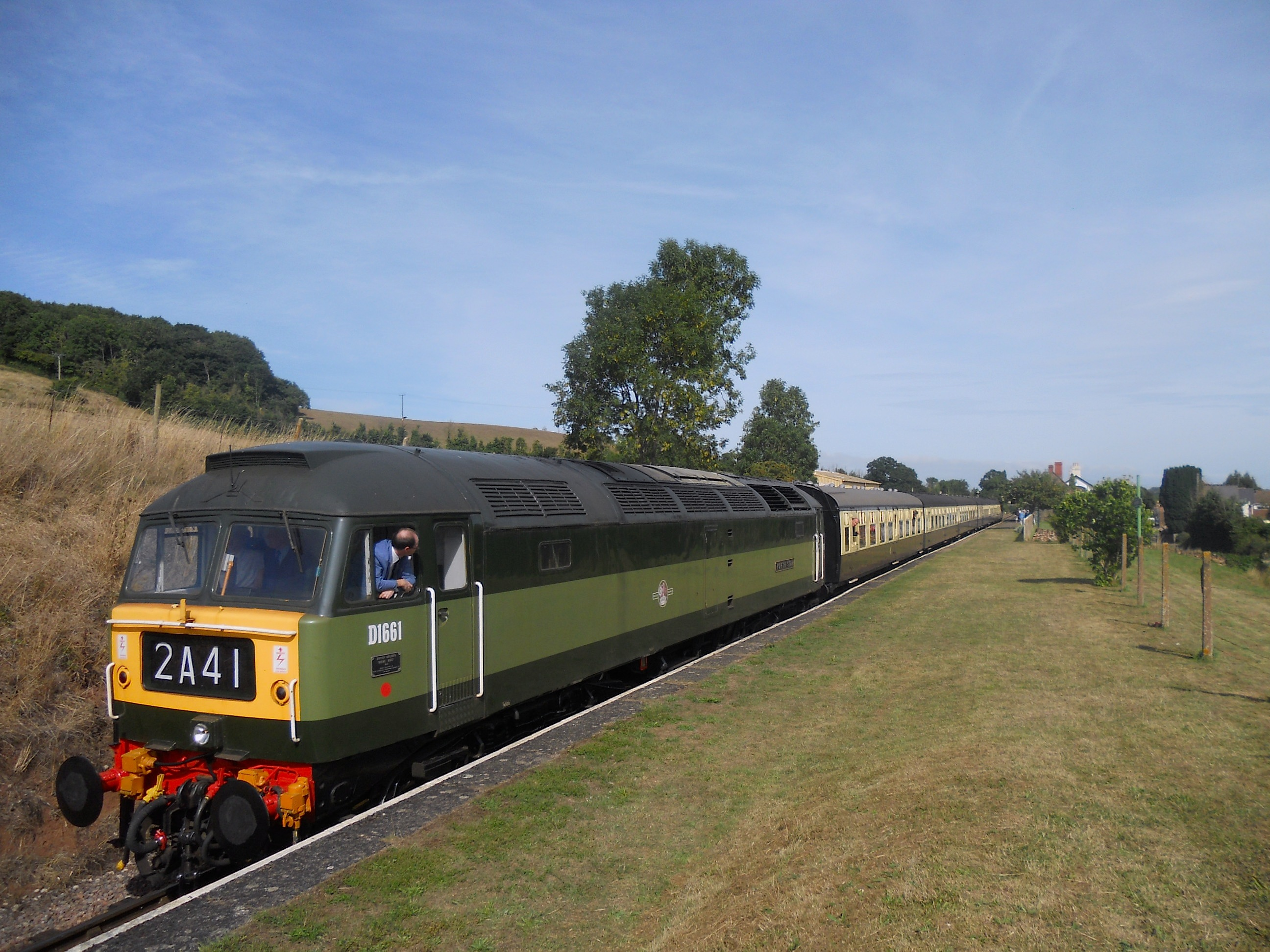 British Railways Class 47 D1661 'North Star' and train are seen at Washford on the West Somerset Railway